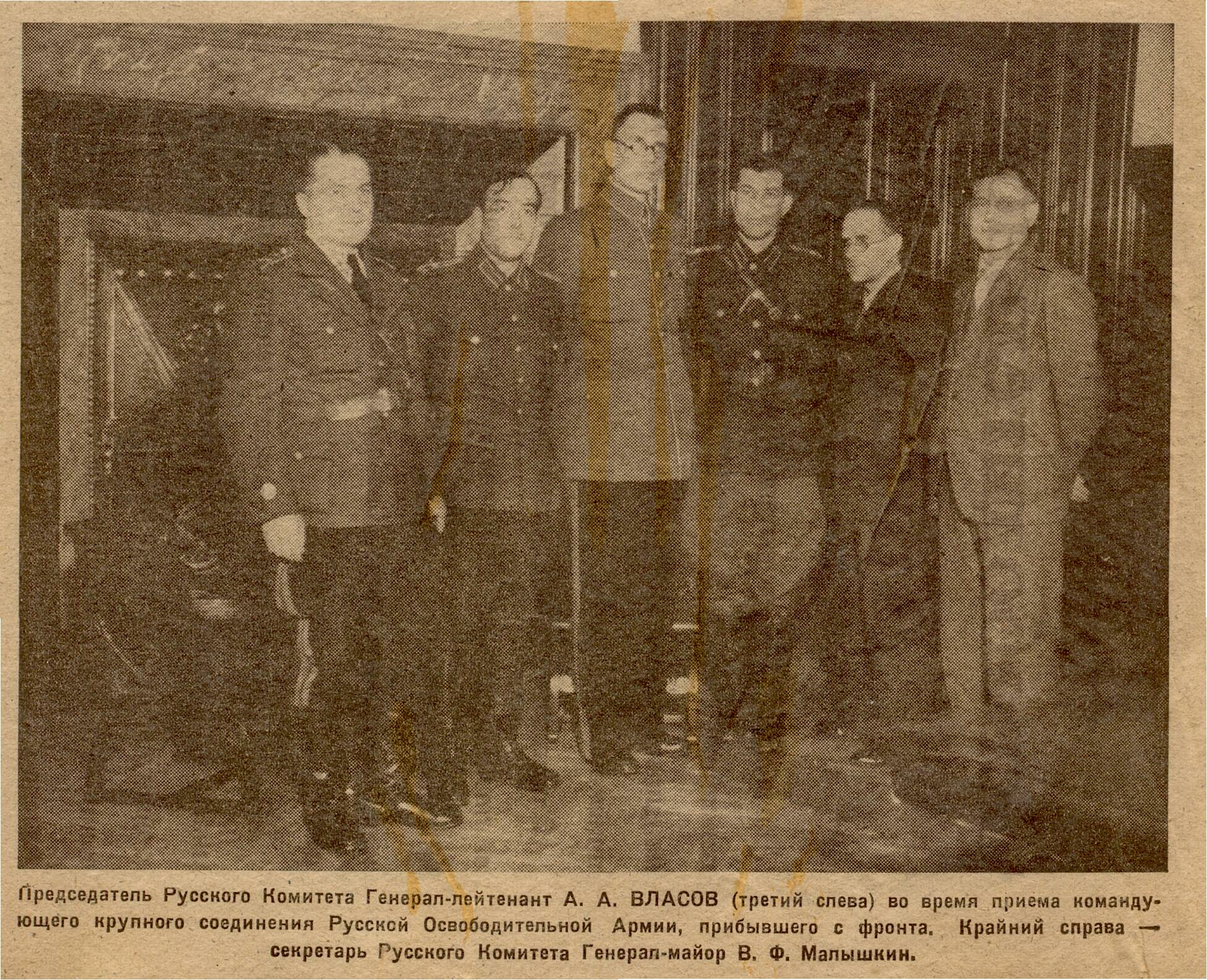 Andrey Vlasov, Listovka